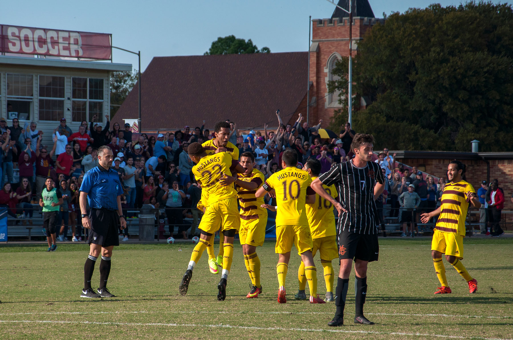 The perennial powerhouse, Midwestern State University Mustangs celebrate after scoring a late-goal in the 2016 playoffs.